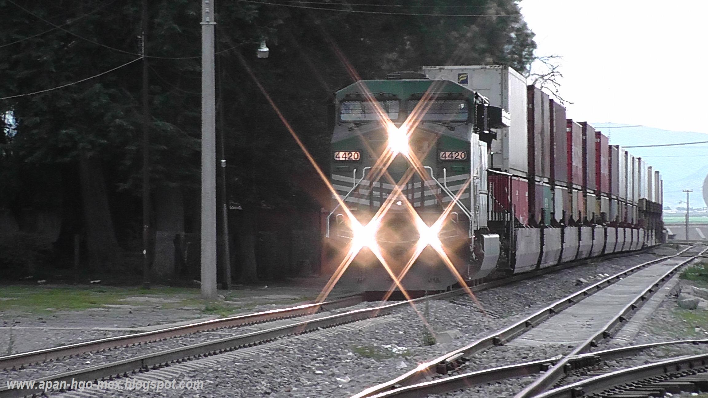 Apan Hidalgo en el Altiplano Hidalguense - Apan Hidalgo in the Mexican Highland HIdalgo state